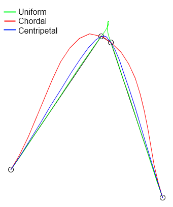 Parameterized Catmull-Rom example curves.